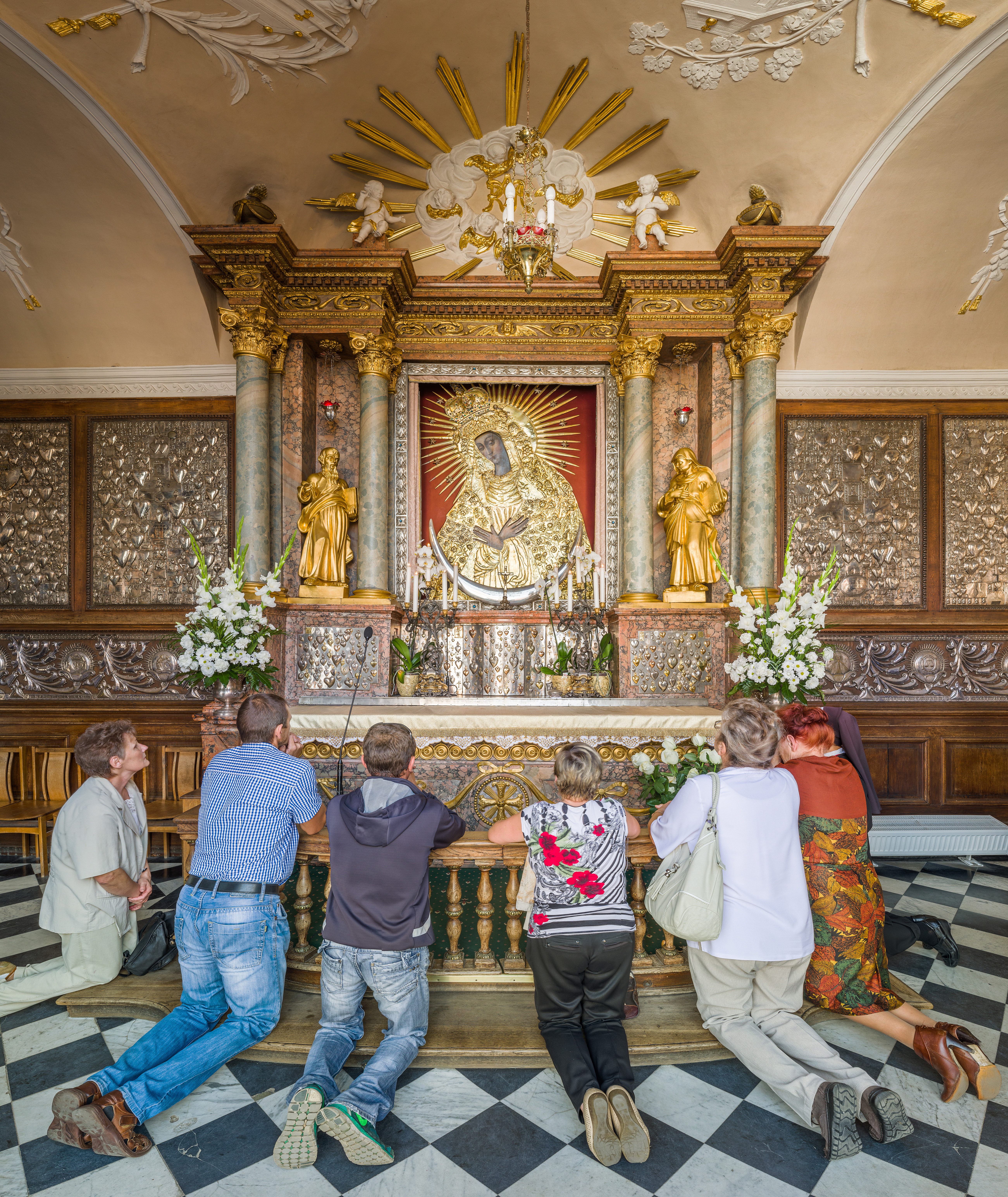 The interior of Our Lady of the Gate of Dawn with worshippers at the altar in Vilnius, Lithuania.